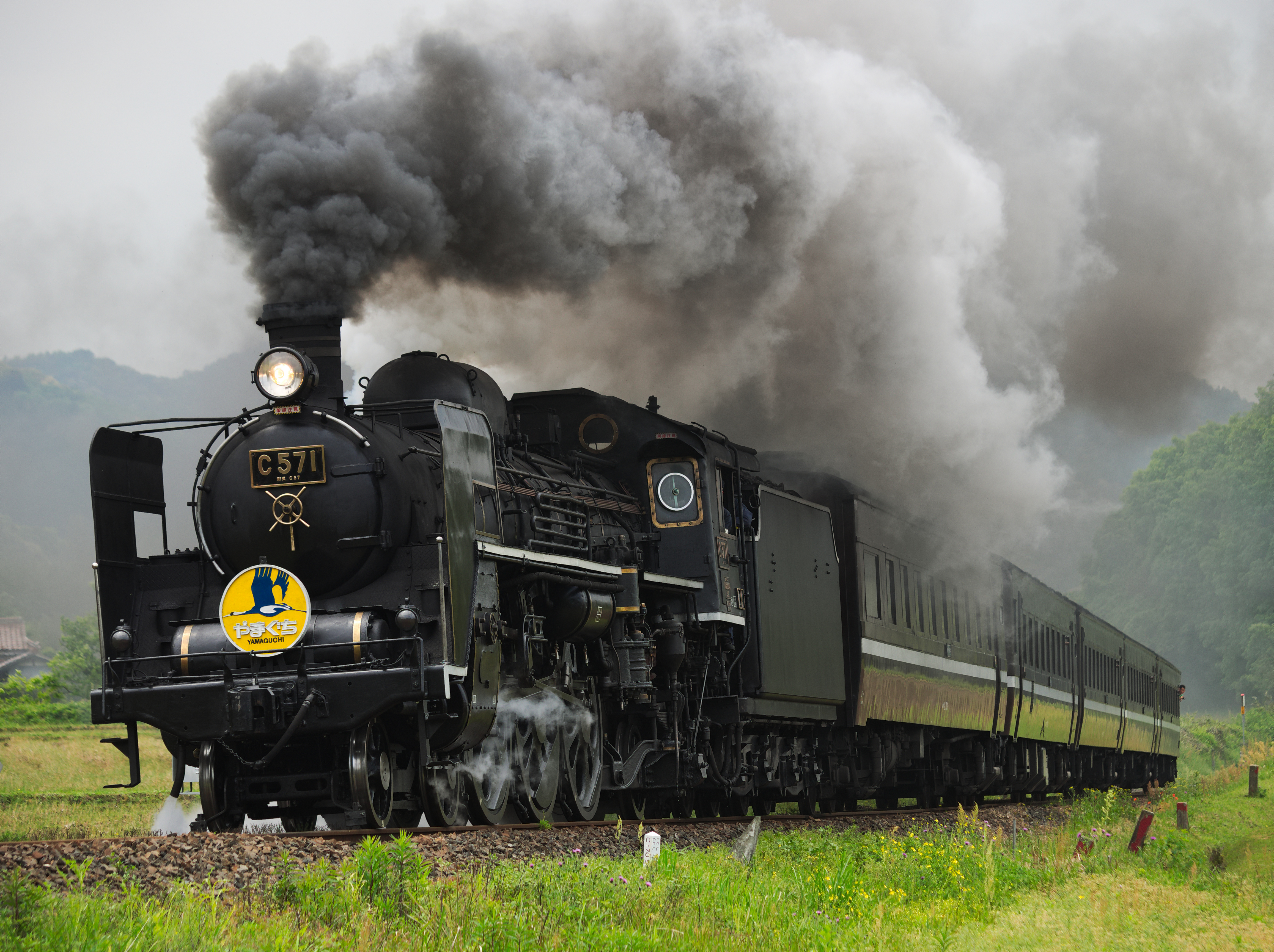 JR West Class C57 steam locomotive C57 1 hauling a special SL Yamaguchi service on the Yamaguchi Line in Japan